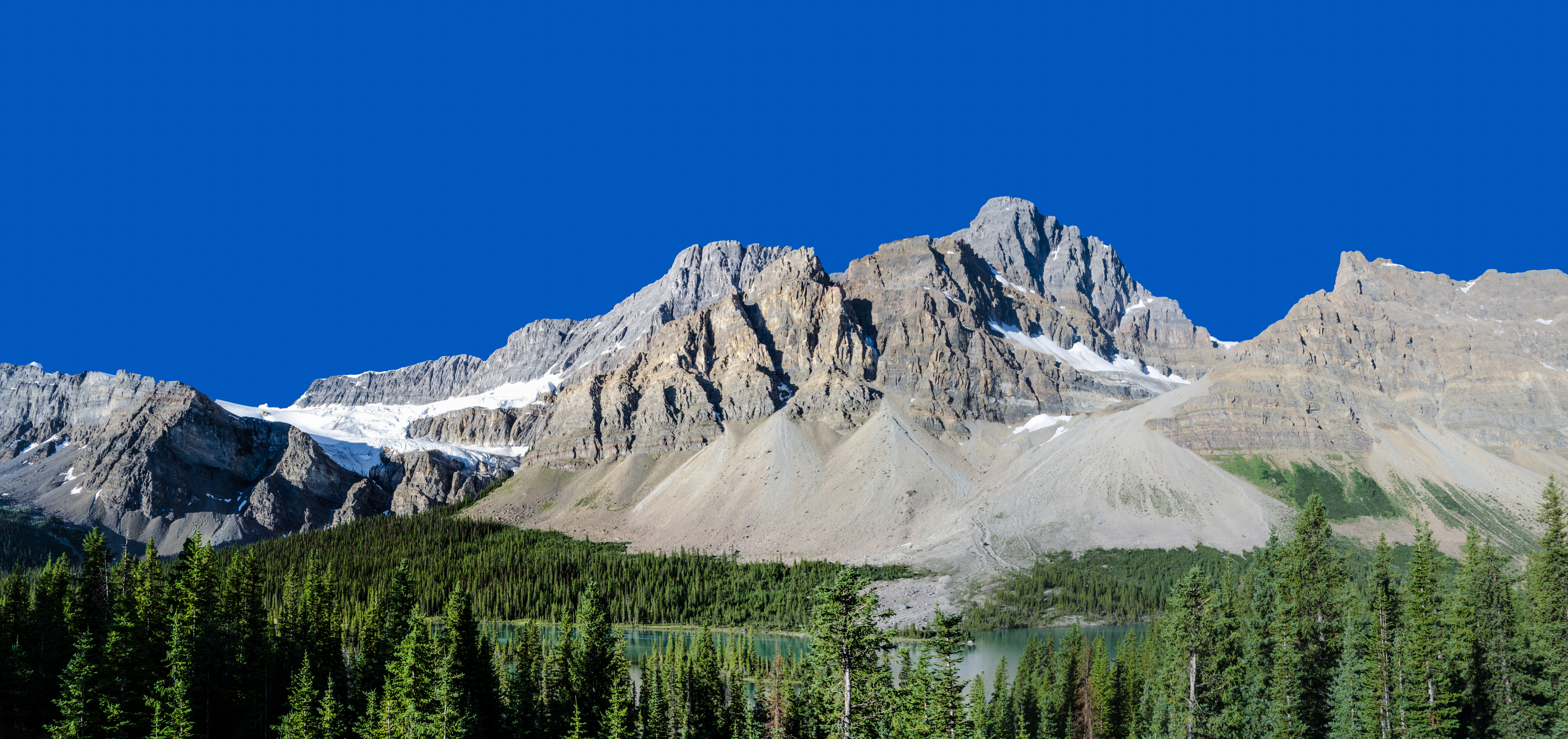 Crowfoot Mountain and Glacier near Icefields Parkway, Alberta, Canada